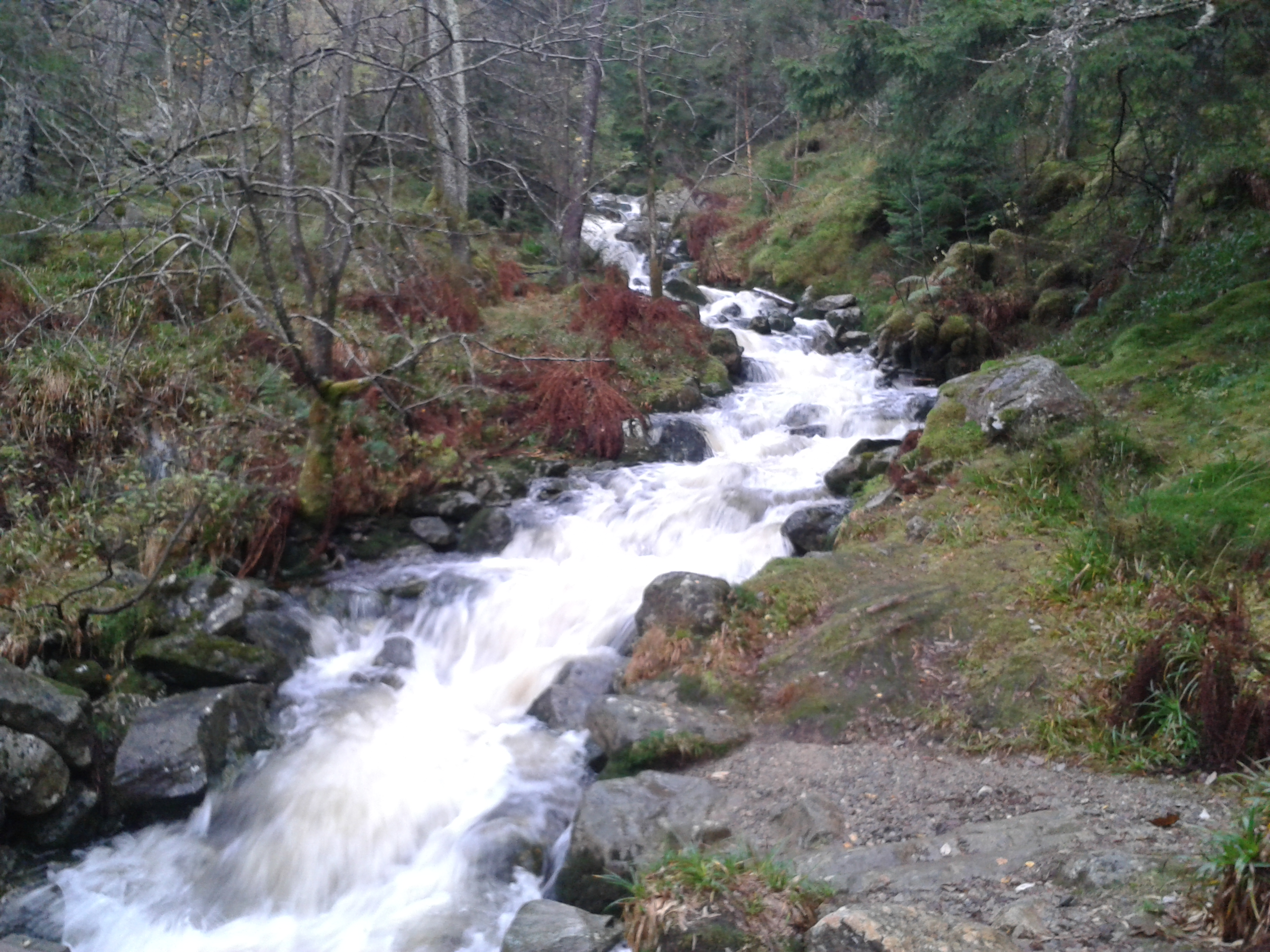 Mulelven, a river in Bergen, Norway